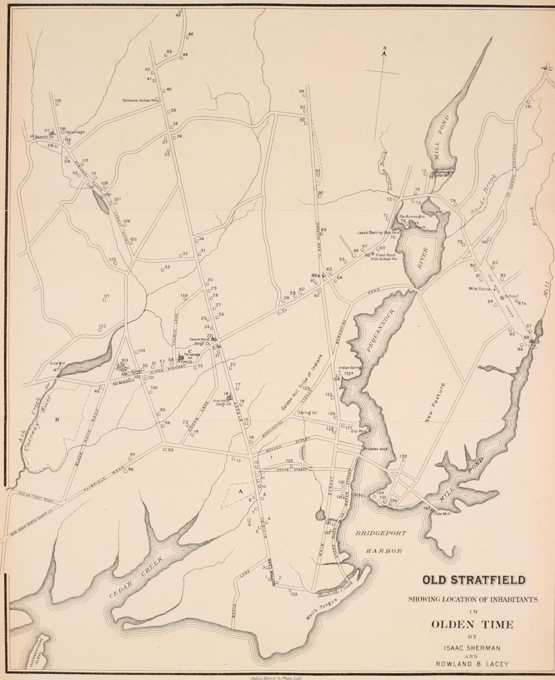 Map of Old Stratfield, now Bridgeport, Connecticut from Samuel Orcutt's 1886 history.